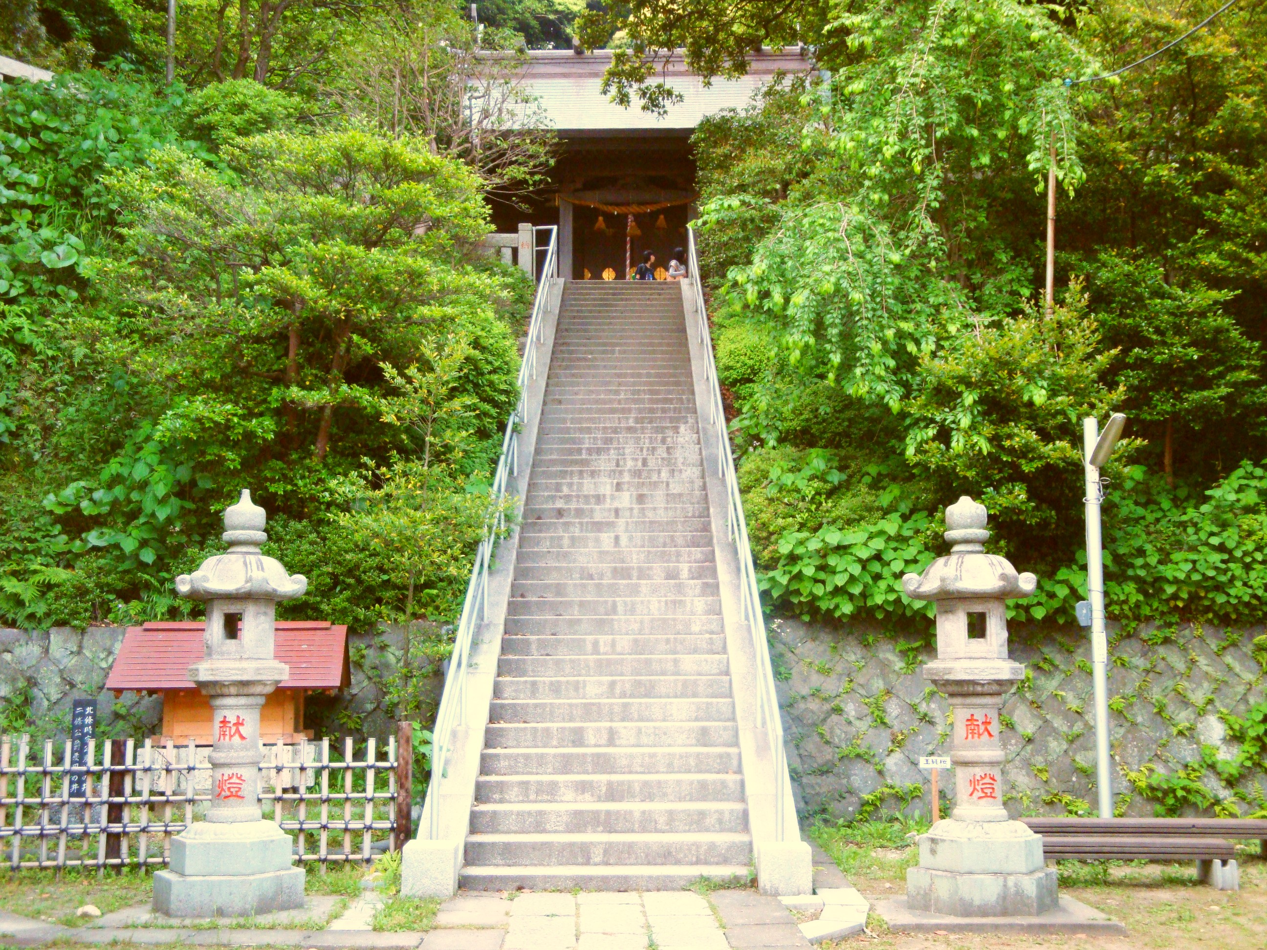 Amanawa Shinmei Jinja Shrine -- the oldest shrine in Kamakura, founded in 710 by Priest Gyoki (668-749) and Tokitada Someya. Main object of worship is Sun Goddess Amaterasu. Stone stairs of the shrine.